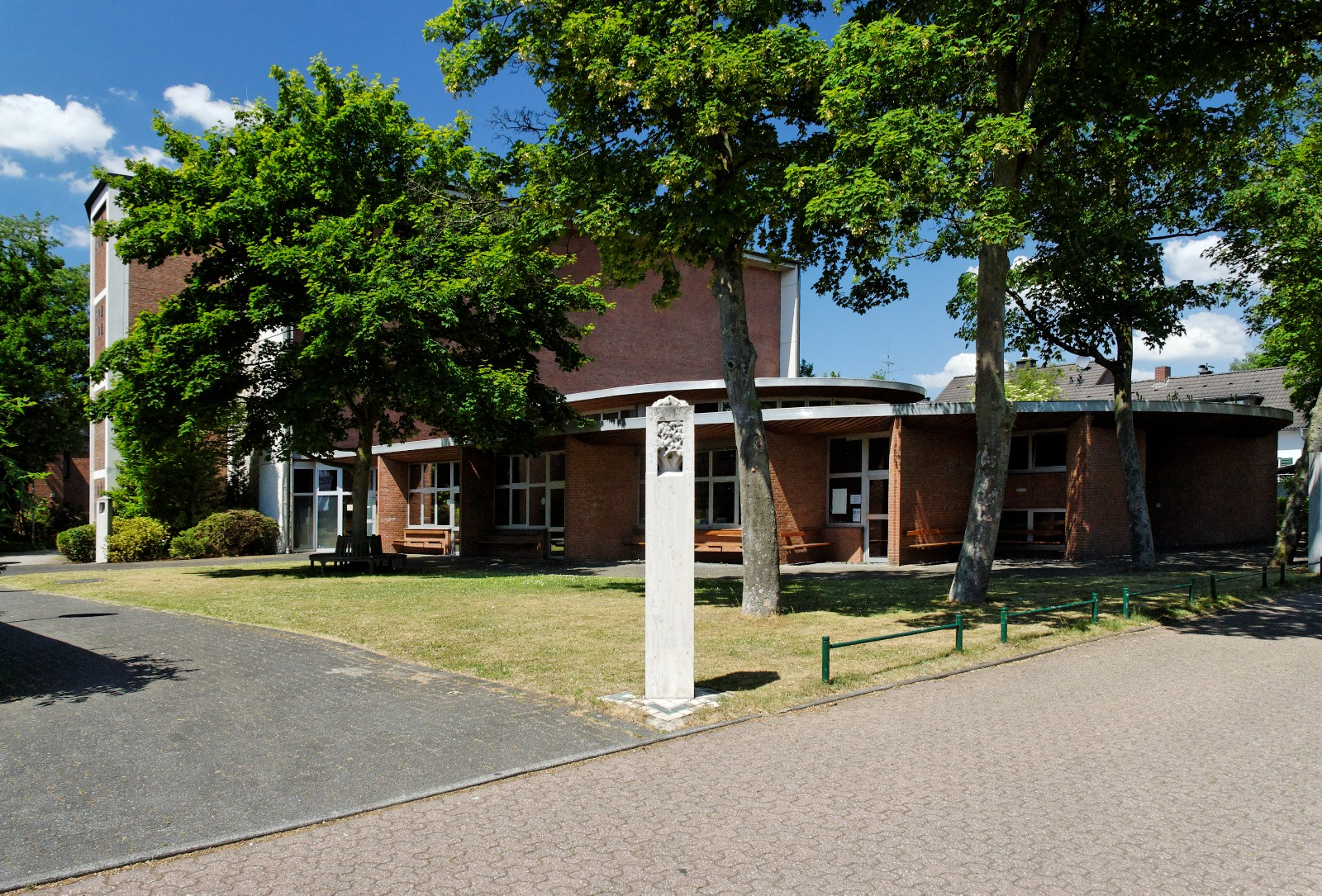 Holy Family in Düsseldorf-Stockum, Germany